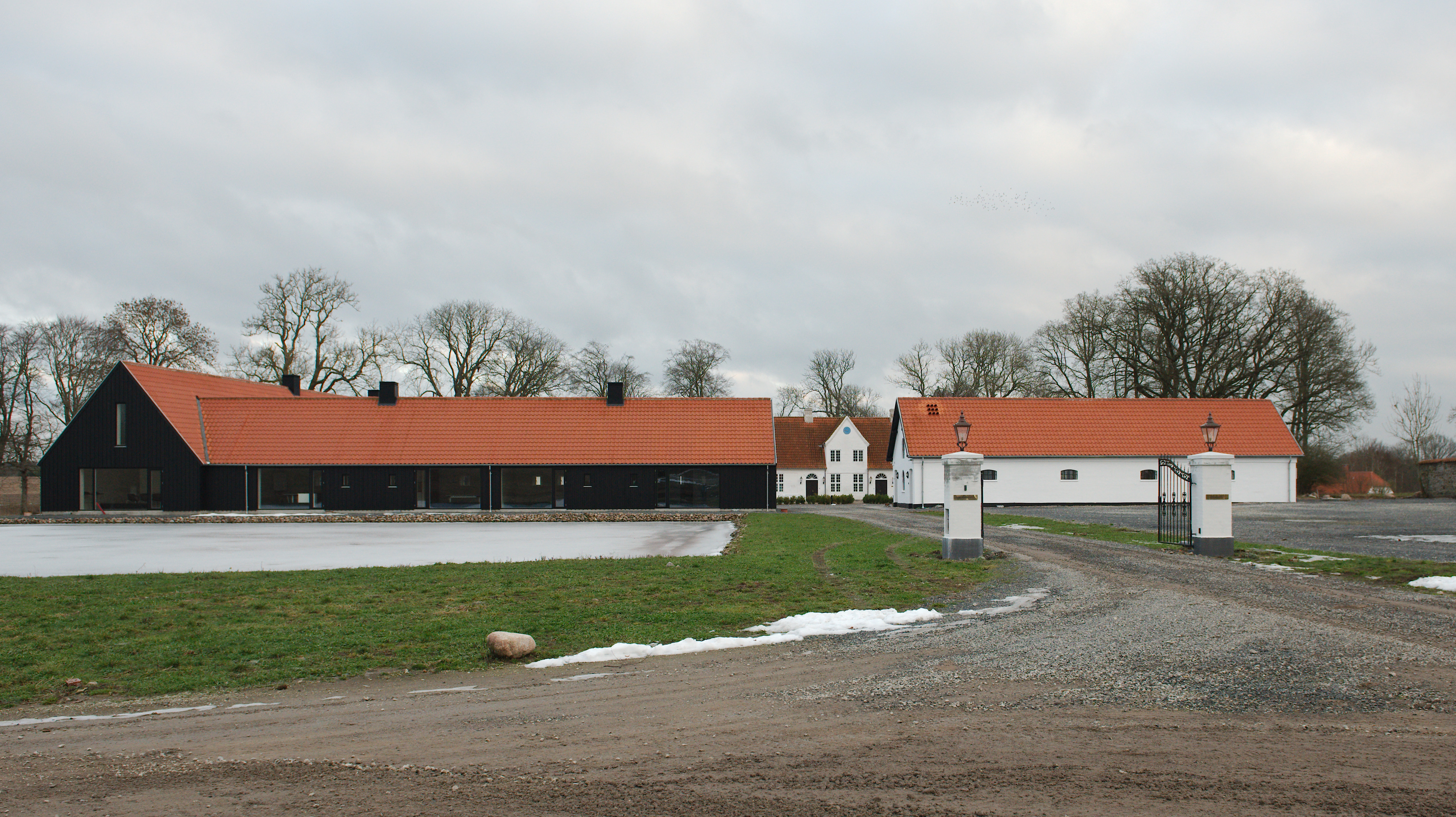 Billeskov farm